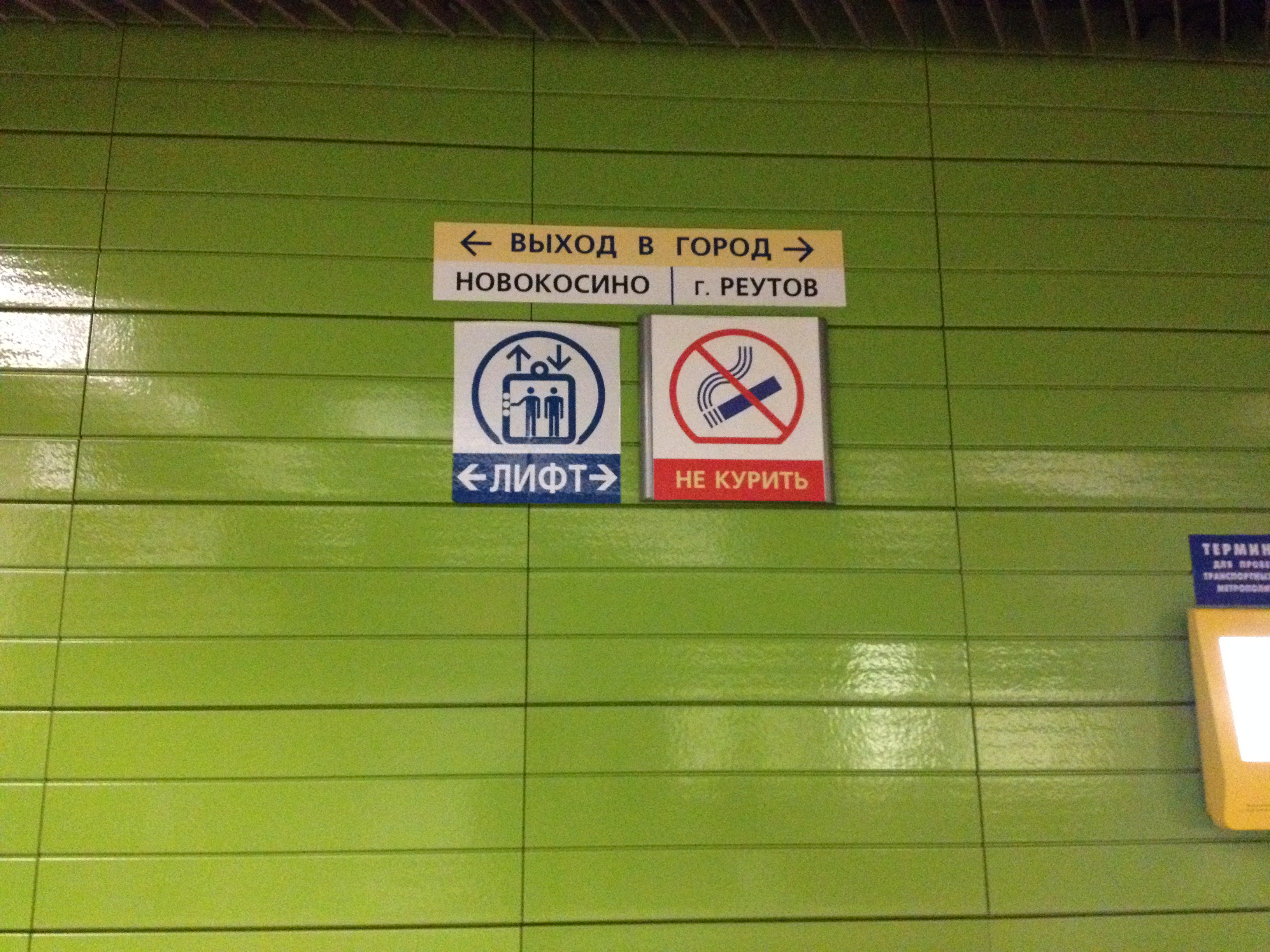 The sign in the Western vestibule of Novokosino station of the Kalininskaya line of Moscow Metro, pointing to the exits to Novokosino, a district of Moscow, and to Reutov, Moscow region